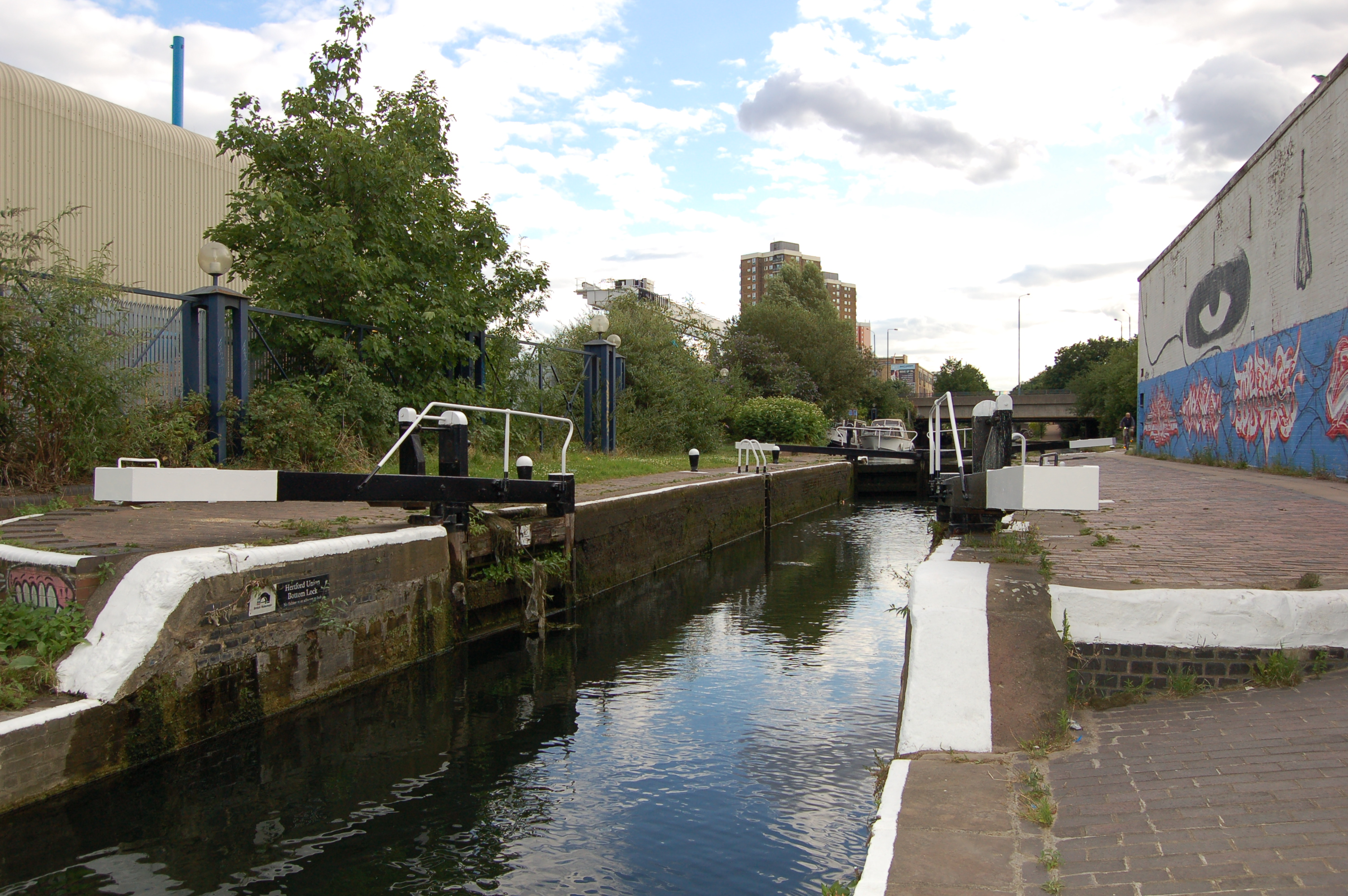 Old Ford Lower Lock on the Hertford Union Canal Use freely, please attribute K B Thompson